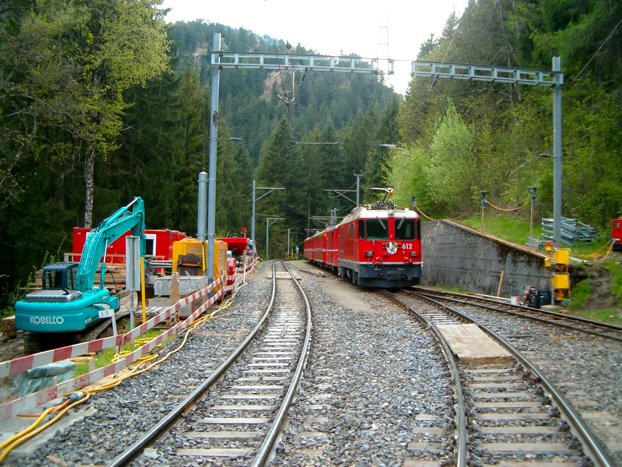 Chur-Arosa railway, crossing station Untersax